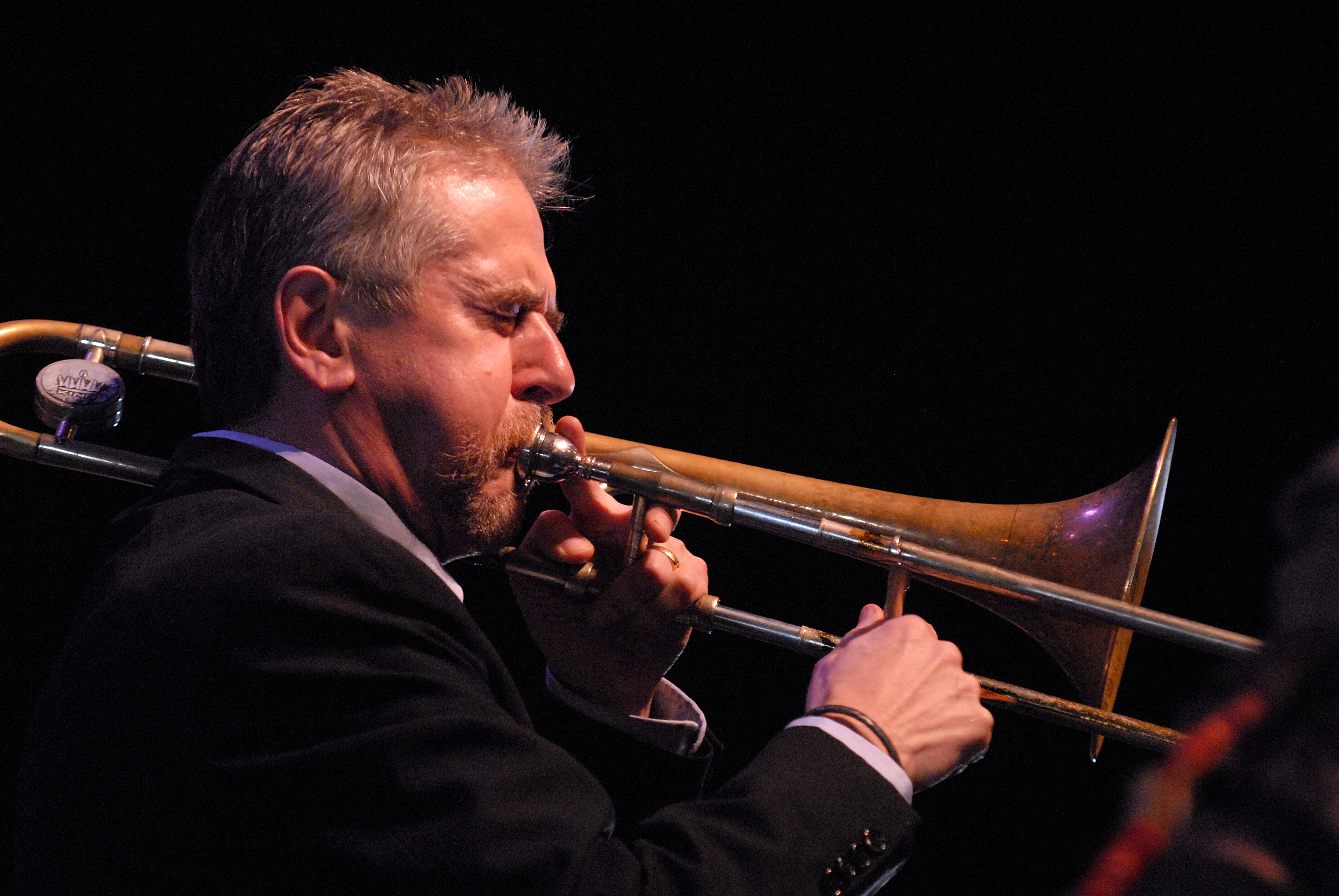 Steve Swell from Muhal Richard Abrams Concert, Montgomery Community College, Philadelphia, April 28, 2012